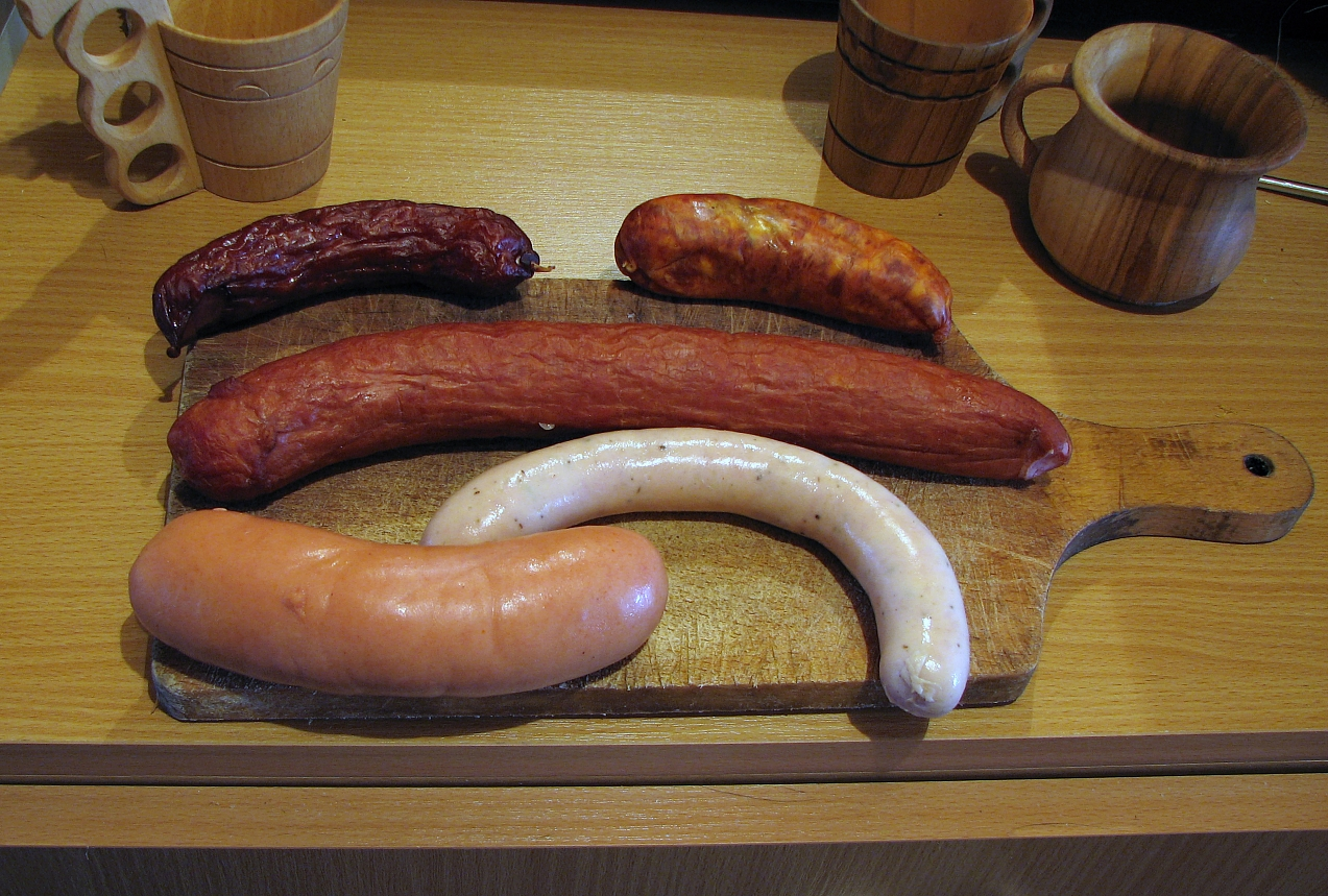 Sausages: myśliwska, surowa, góralska, frankfuterek biały, parówkowa